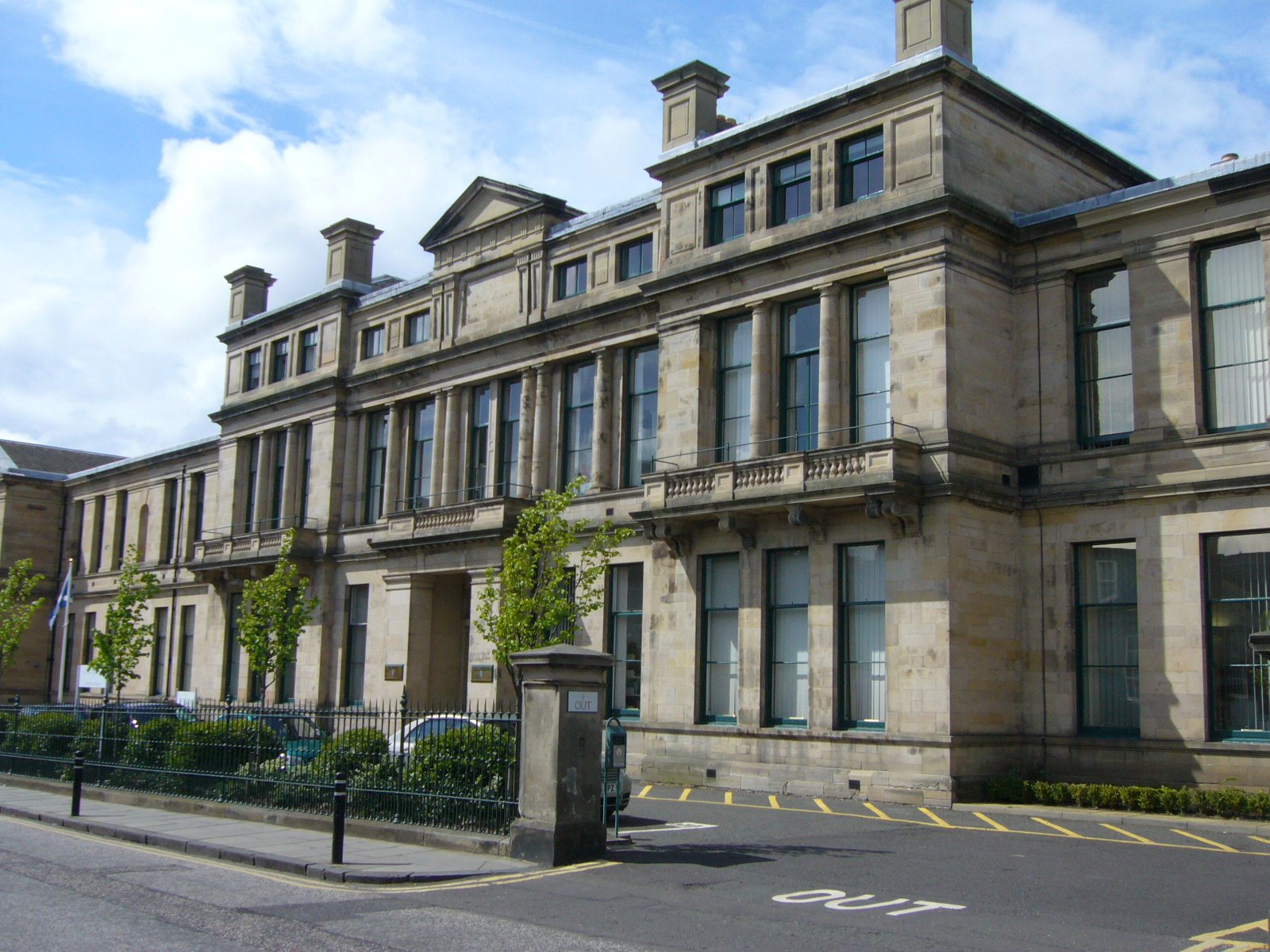 Historic Scotland offices in the former Longmore Hospital, Salisbury Place, Edinburgh